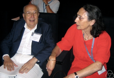 Mathematicians Paul Malliavin and Marie-Paule Malliavin at the ICM 2006 in Madrid.